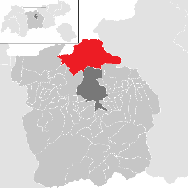 District Innsbruck Land